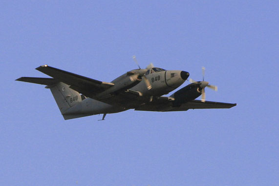 IAF King Air B-200, at IAF cadet graduation ceremony, #154